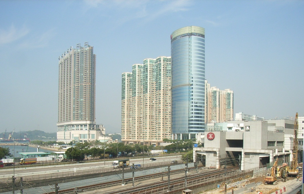 View of Olympian City in Tai Kok Tsui, Hong Kong. From left to right: One Silver Sea, Island Harbourview, Bank of China Centre, Olympic Station